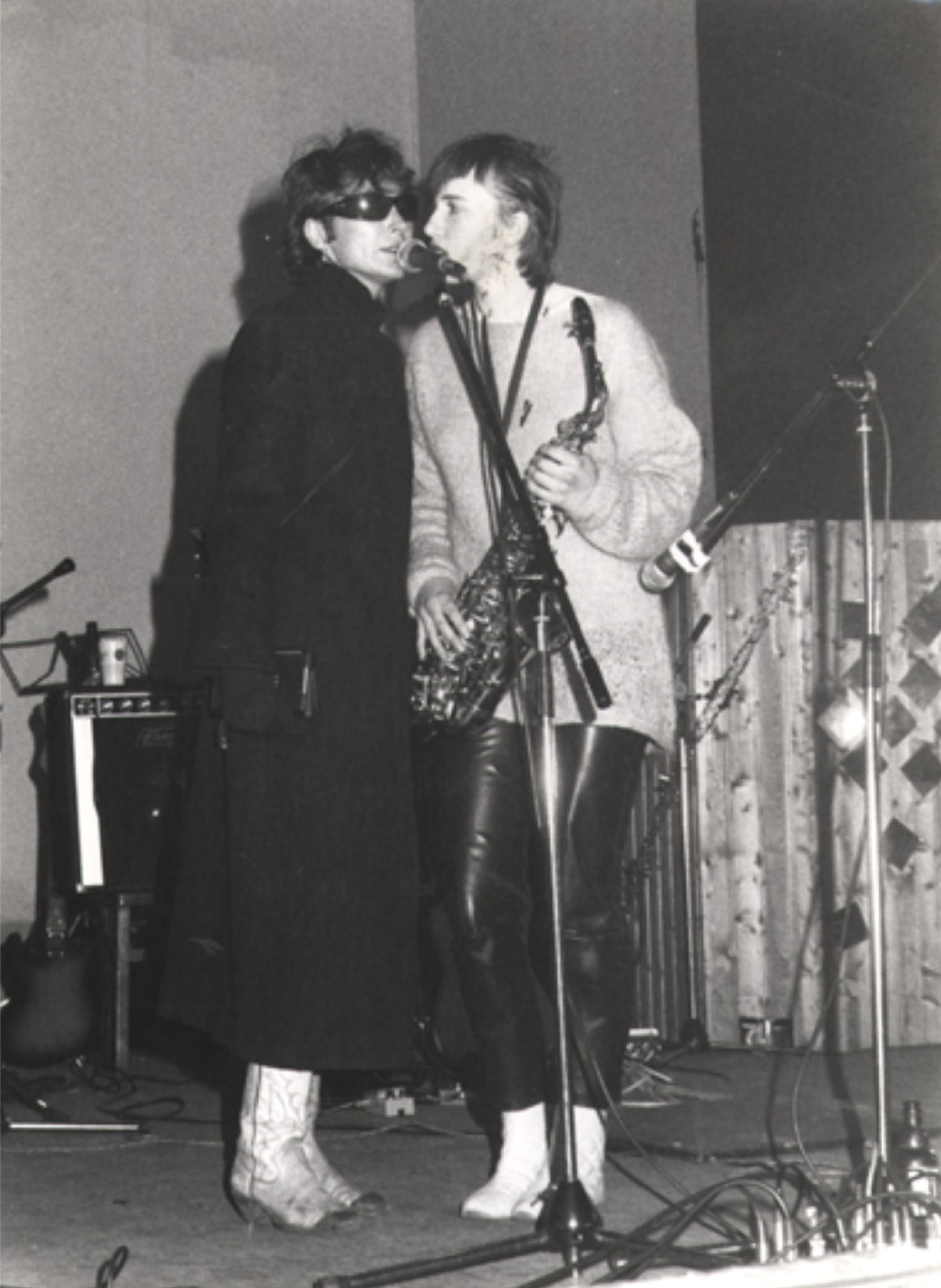 Arleen Schloss, North American performance art pioneer with BLASSE, Performance SO 36 Berlin 1980-01-18